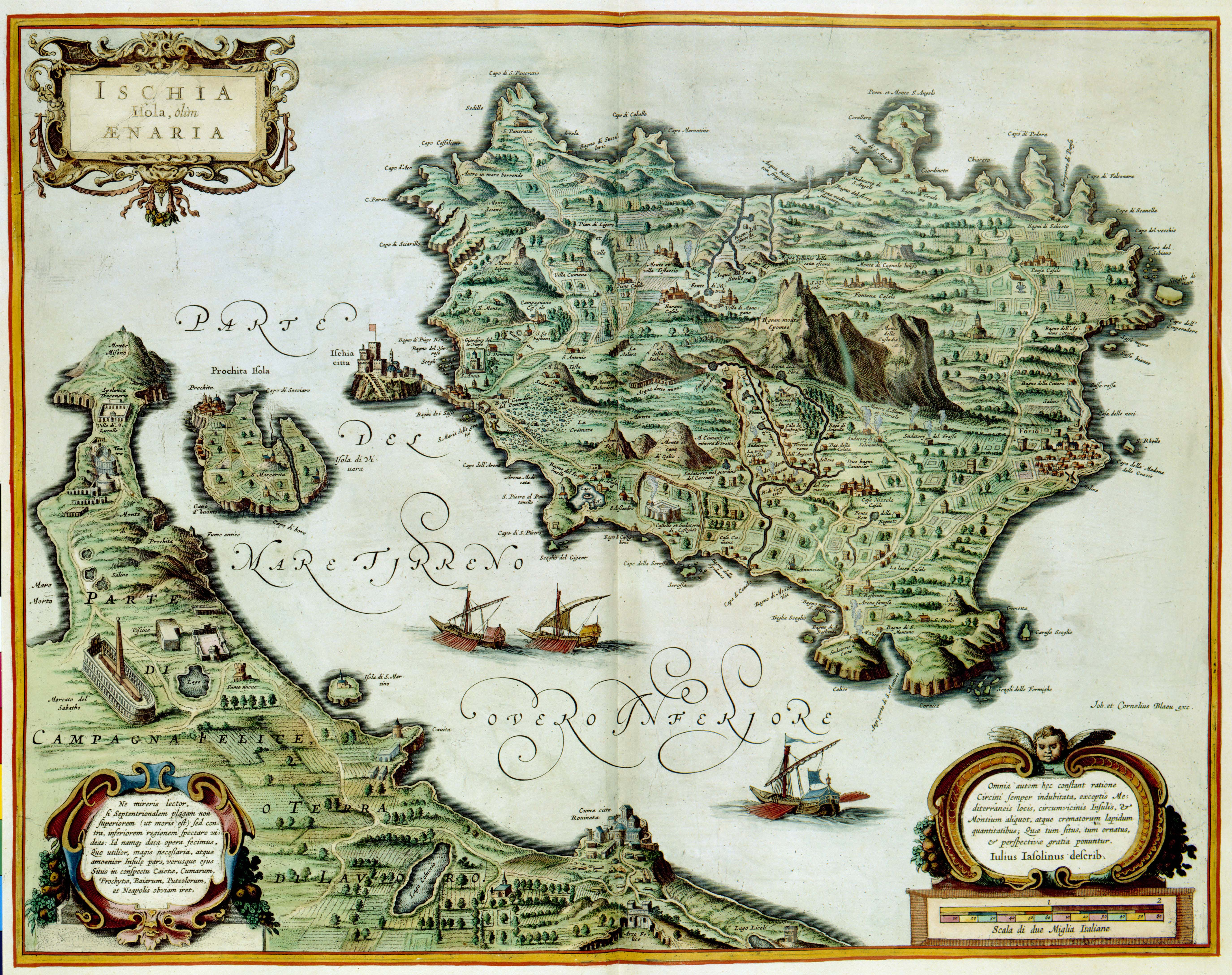 The map of the Italian island Ischia, near the coast of Napels, was published in 1640 by Joan Blaeu (1598-1673) and Cornelius Blaeu (1610-1642) in the third volume of the Atlas Novus. Blaeu copied the map after an example from the map book Italia by the Italian cartographer Giovanni Antonio Magini (1555-1617). Julius Jasolinus who is mentioned in the text, wrote the explanatory text.